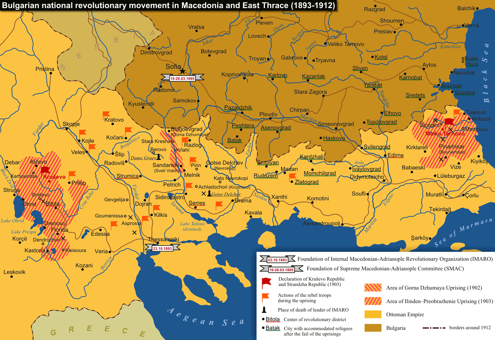 Bulgarian national revolutionary movement in Macedonia and East Thrace (1893-1912) Основана на карта "Българско национално революционно движение в Македония и Одринска Тракия (1893-1912)" в "Атлас по история за шести клас" КИПП по картография, София, 1986 г.